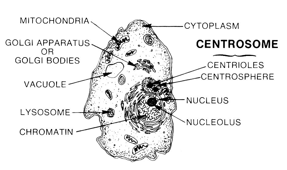 line art drawing of centrosome.